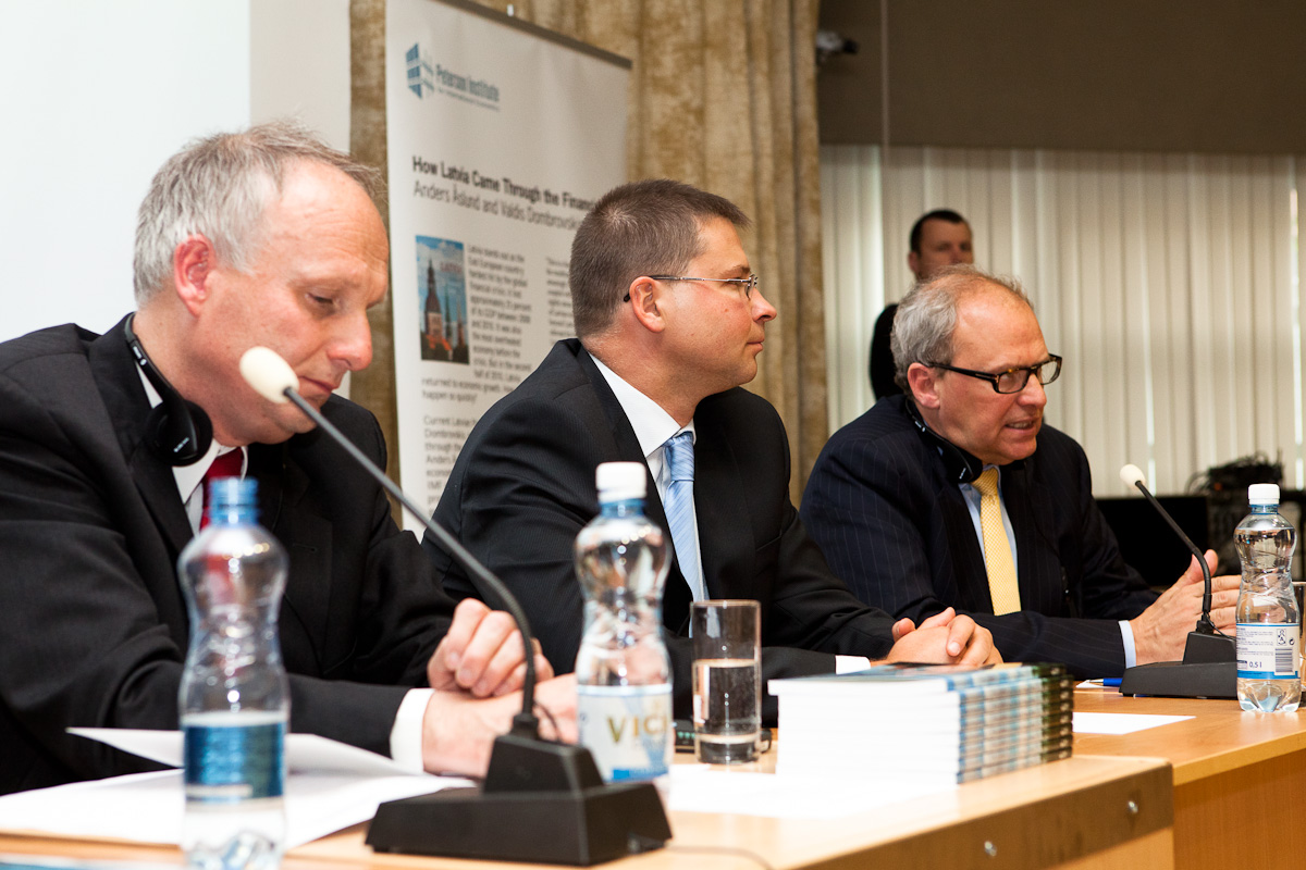 Rīgas ekonomikas augstskolas rektors Anderss Palzovs, Ministru prezidents Valdis Dombrovskis un ekonomikas eksperts Anderss Aslunds The Rector of the Stockholm School of Economics in Riga, The Prime Minister of Latvia Valdis Dombrovskis and economist Anders Ǻslund. Foto: Jānis Janums